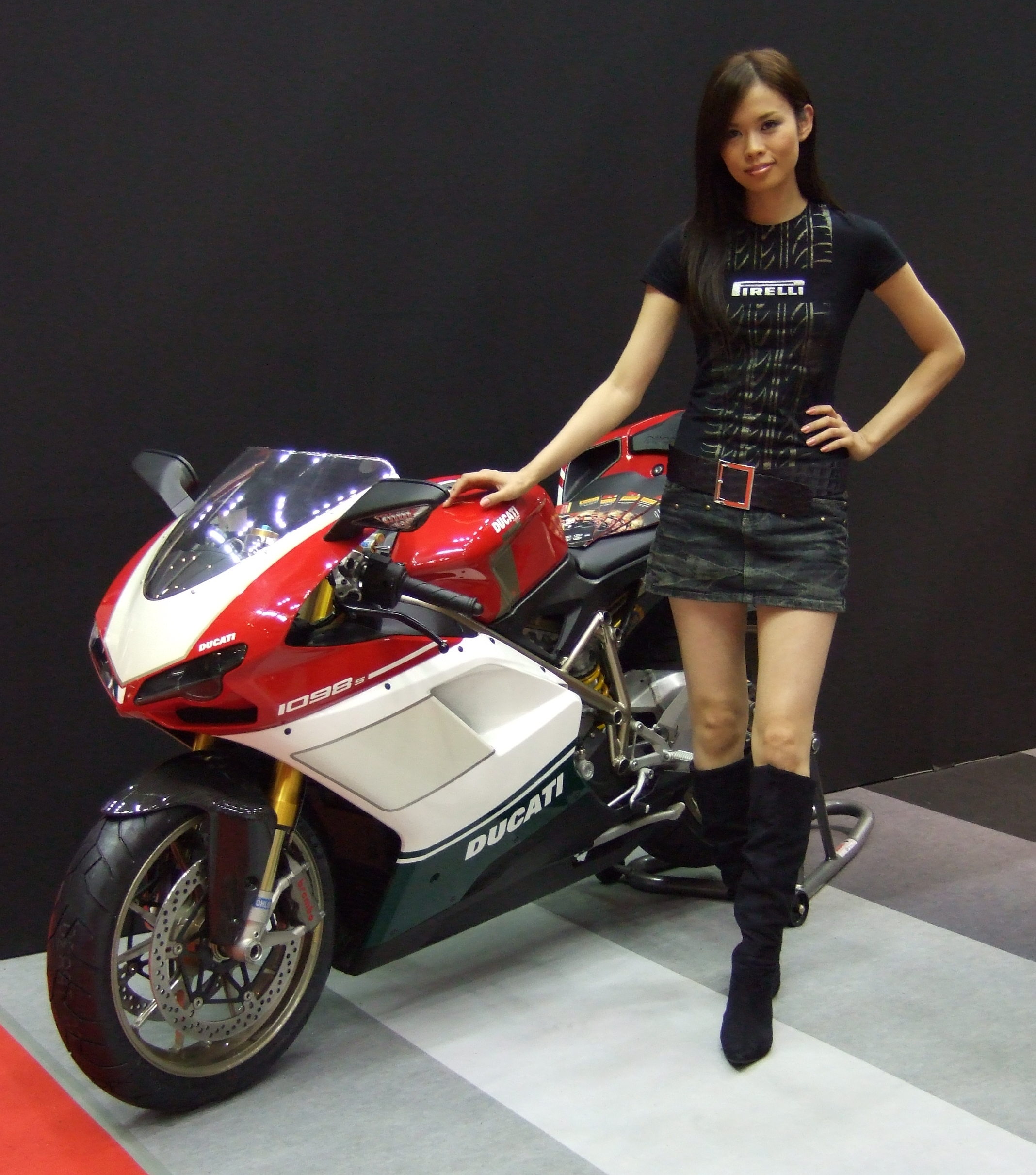 Ducati 1098S Tricolore(2008)on display at TOKYO MOTORSHOW 2007